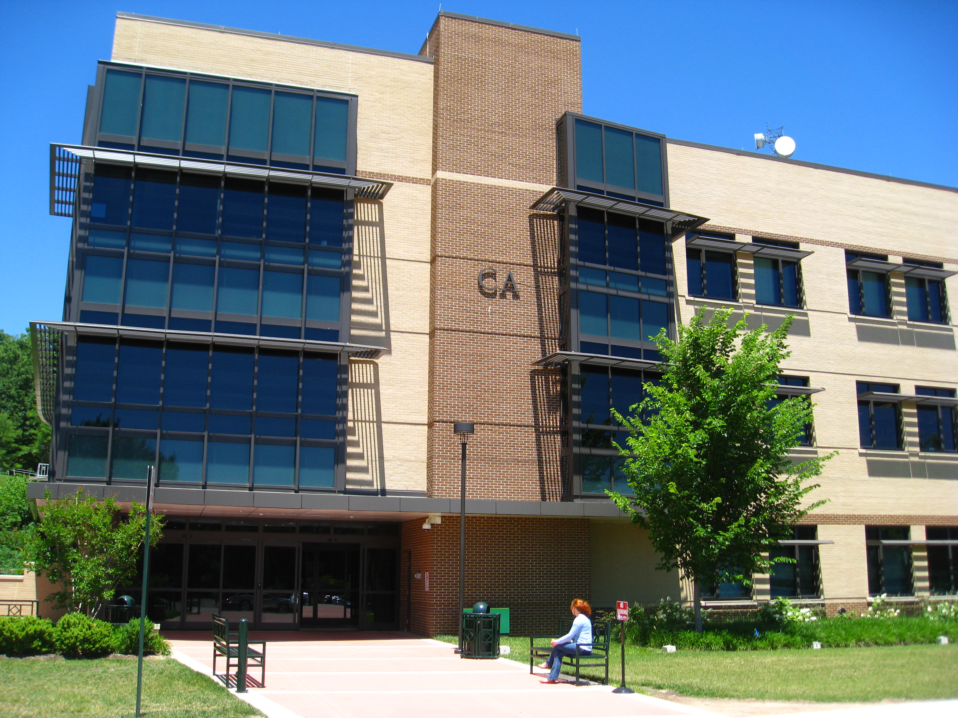 A picture of the entrance to the CA building at Northern Virginia Community College (Annandale Campus).